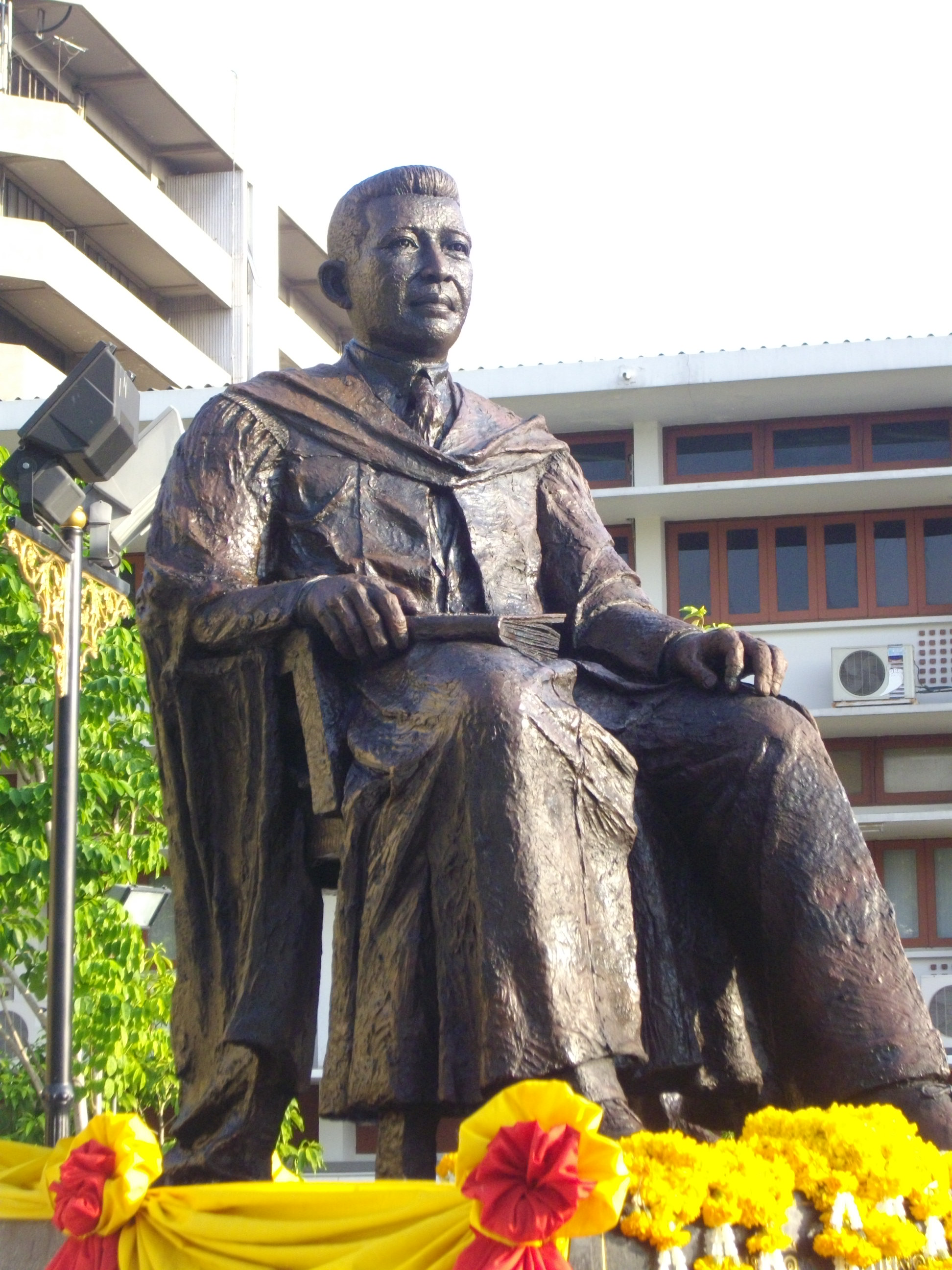 Pridi Phanomyong monument at Thammasat University, Bangkok, Thailand